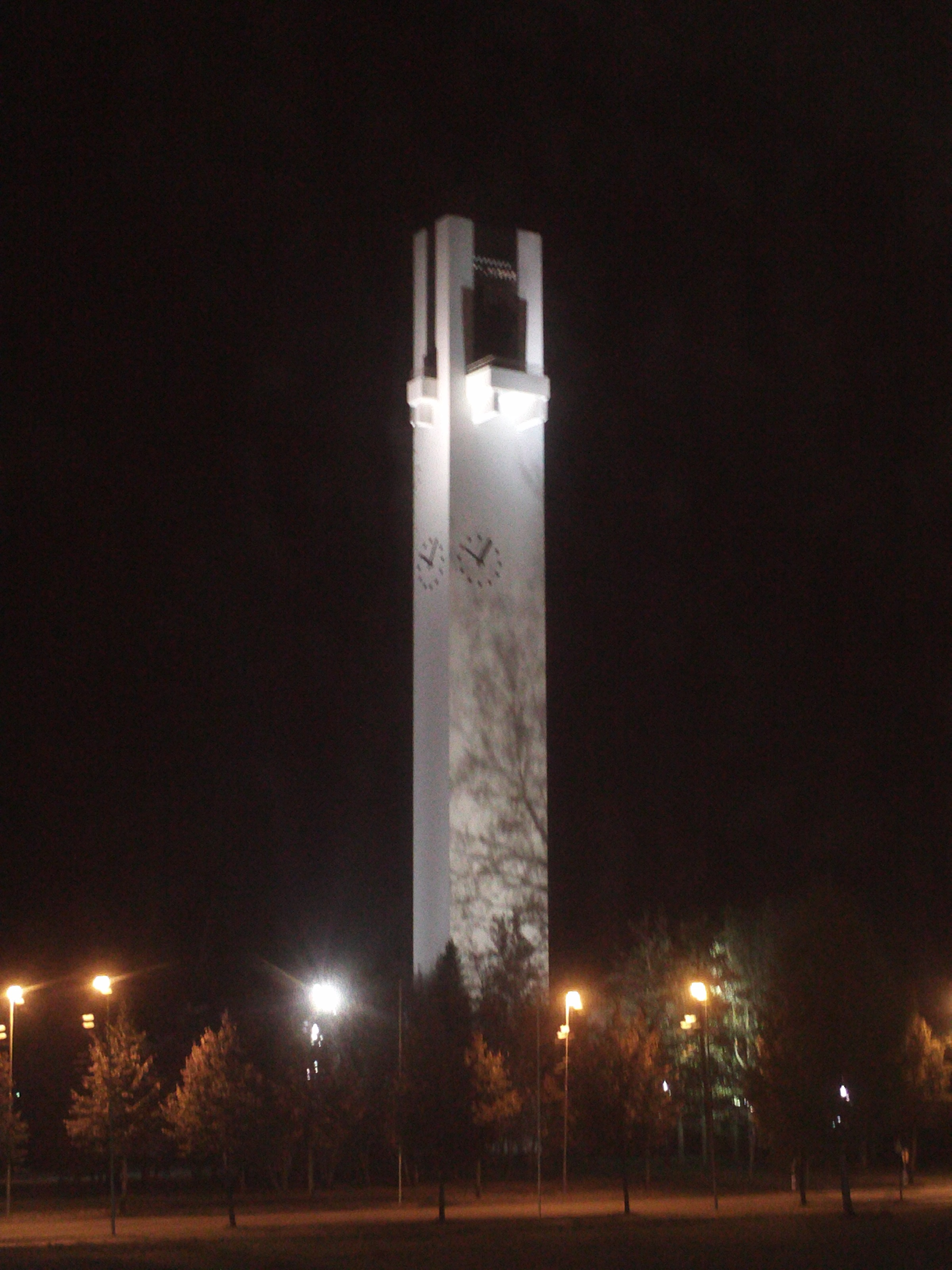 Lakeuden risti church's tower. Lakeuden risti (The cross on the plains) is one of the most known landmarks in Seinäjoki., Seinäjoki.